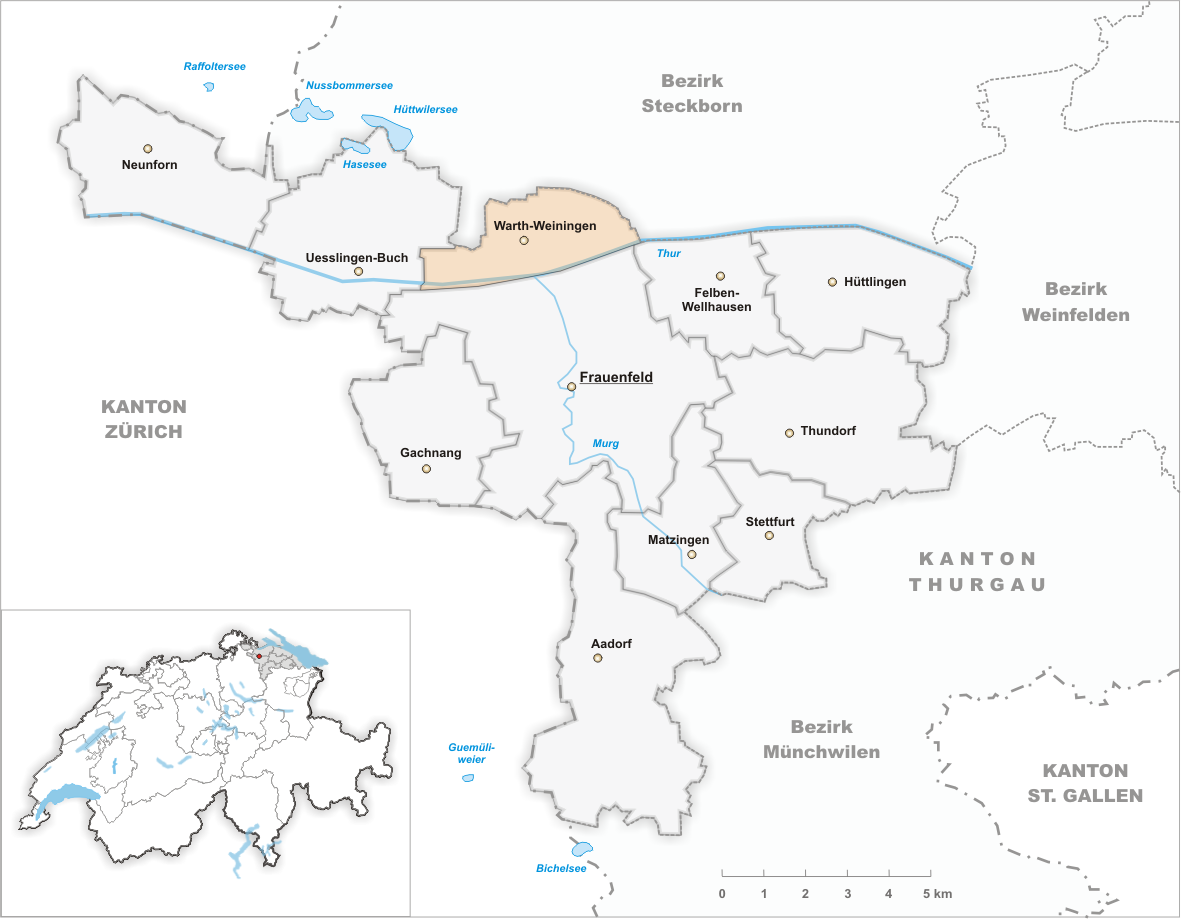 Municipality Warth-Weiningen